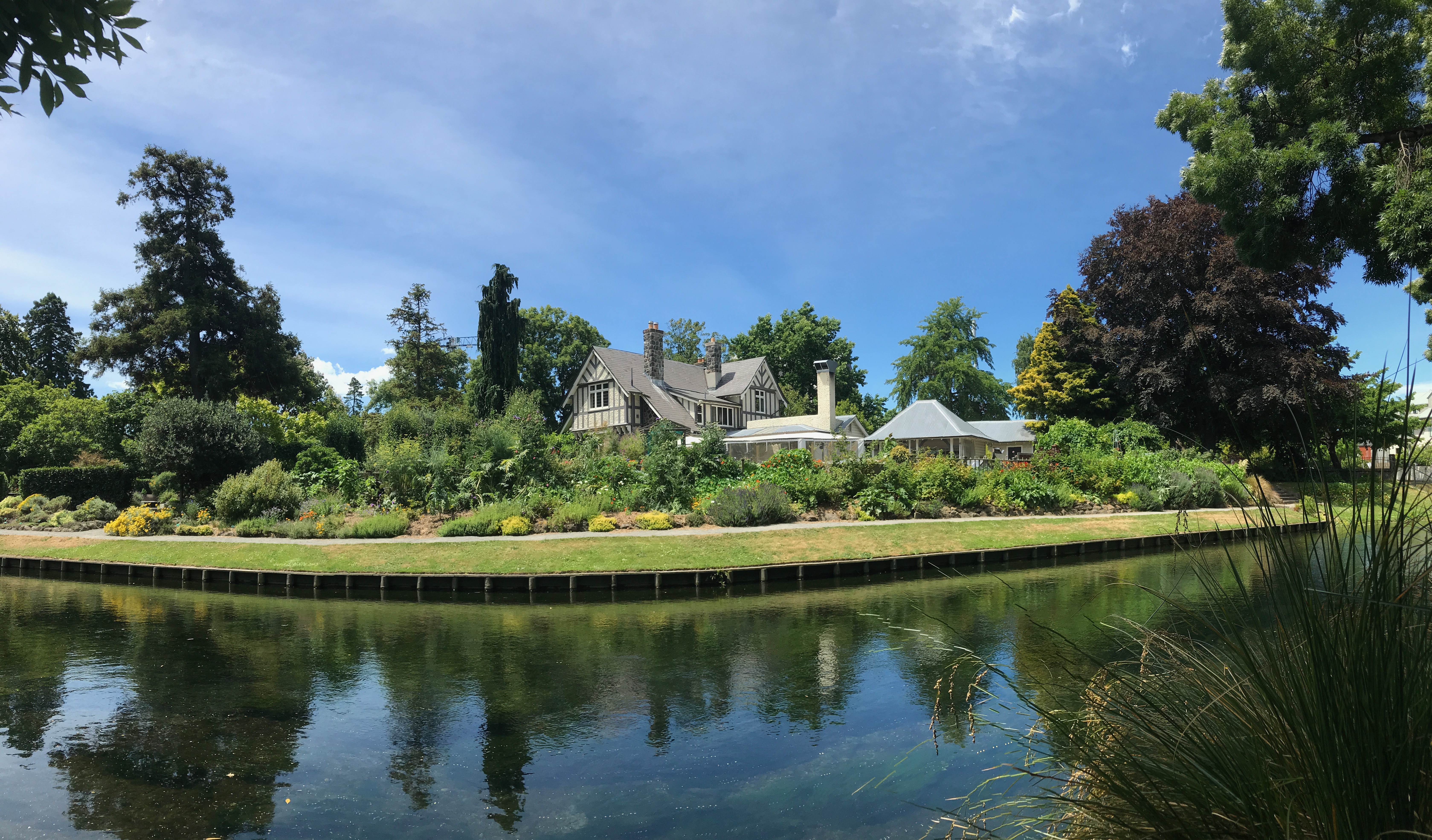 The Curator's House as seen from the Chch Hospital